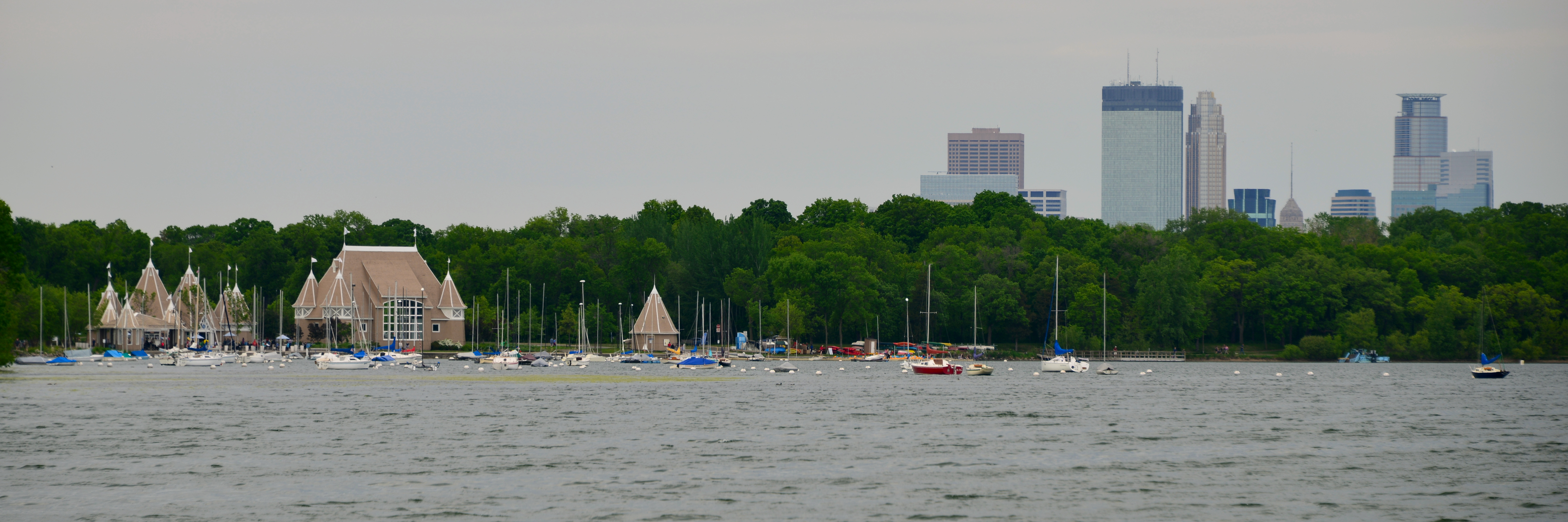 The Lake Harriet bandshell and downtown Minneapolis skyline visible in juxtaposition across Lake Harriet.